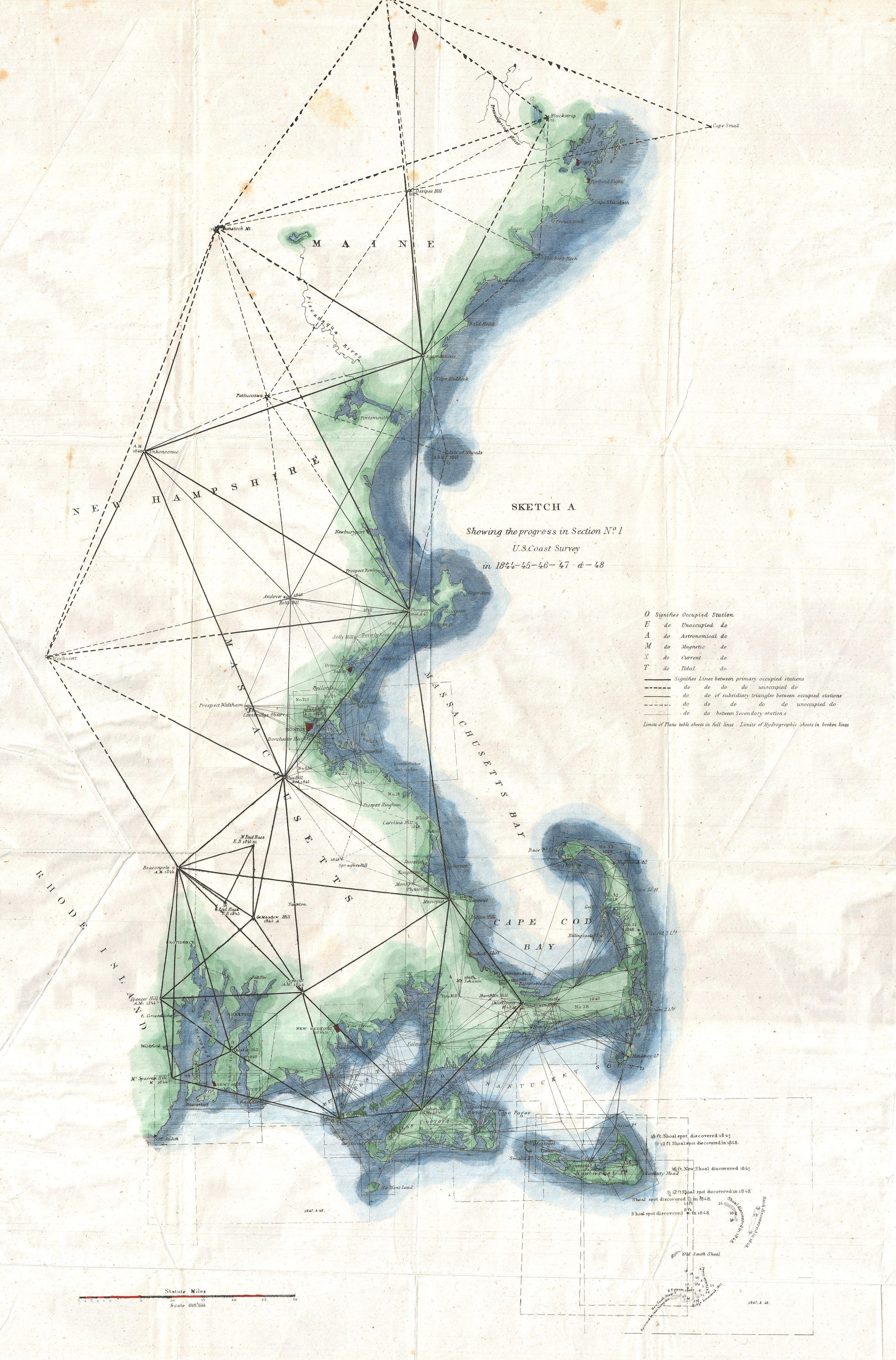 A unusual triangulation chart of the New England coast line from the scarce 1848 edition of the Superintendent's Report . Covers from Nantucket and Marthas Vineyard north past Cape Code and Boston as far as Portland, Maine. Shows various triangulation point and some of the attached river systems. Includes some of the shoals discovered around Nantucket in the 1840s. The 1848 edition of the Superintendent's Report is highly unusual in that its maps do not have borders, was common in all subsequent editions.